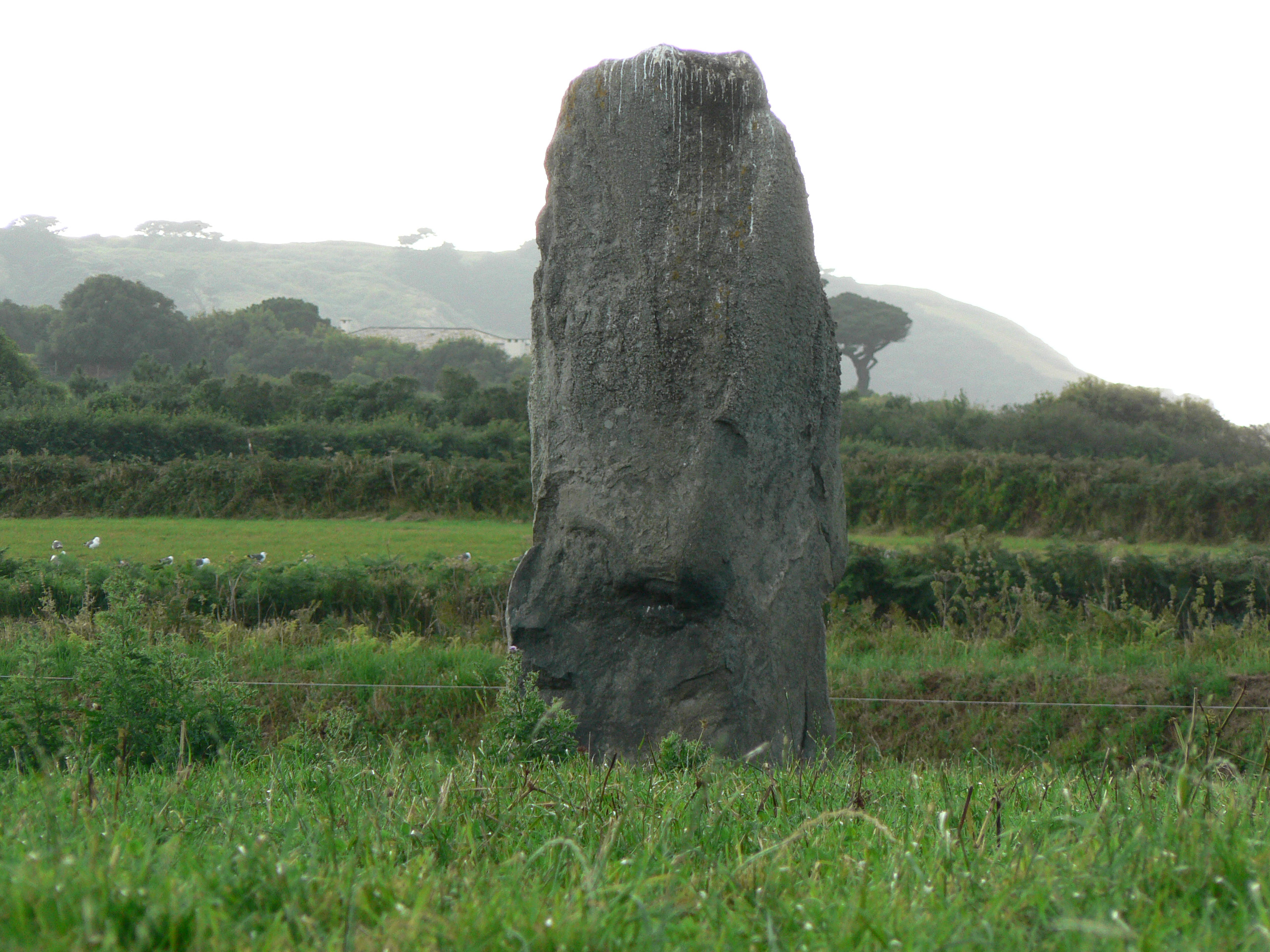 A megalithic standing stone about a mile inland from the coast, overlooking Rocquaine Bay in the south-west of the island.